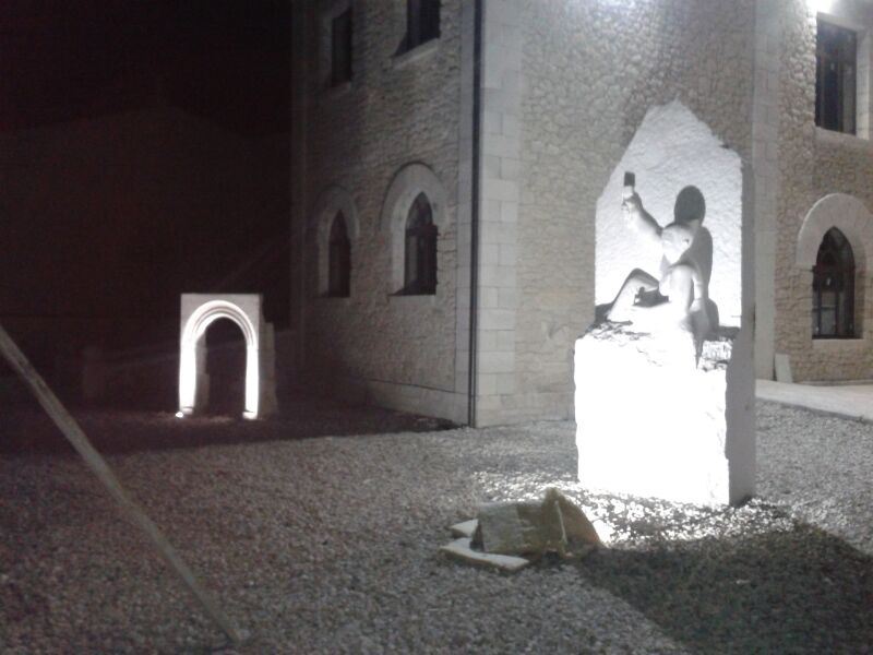 Patio of Campaspero Rock's Museum, Valladolid, Spain.